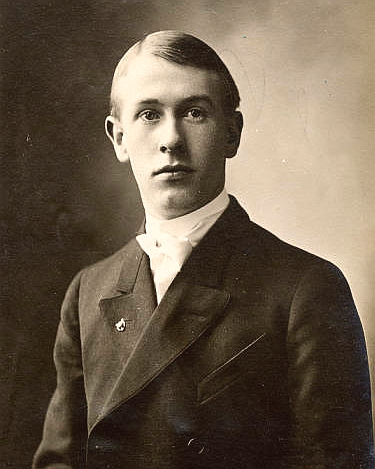 Alfred John Goulding circa 1905